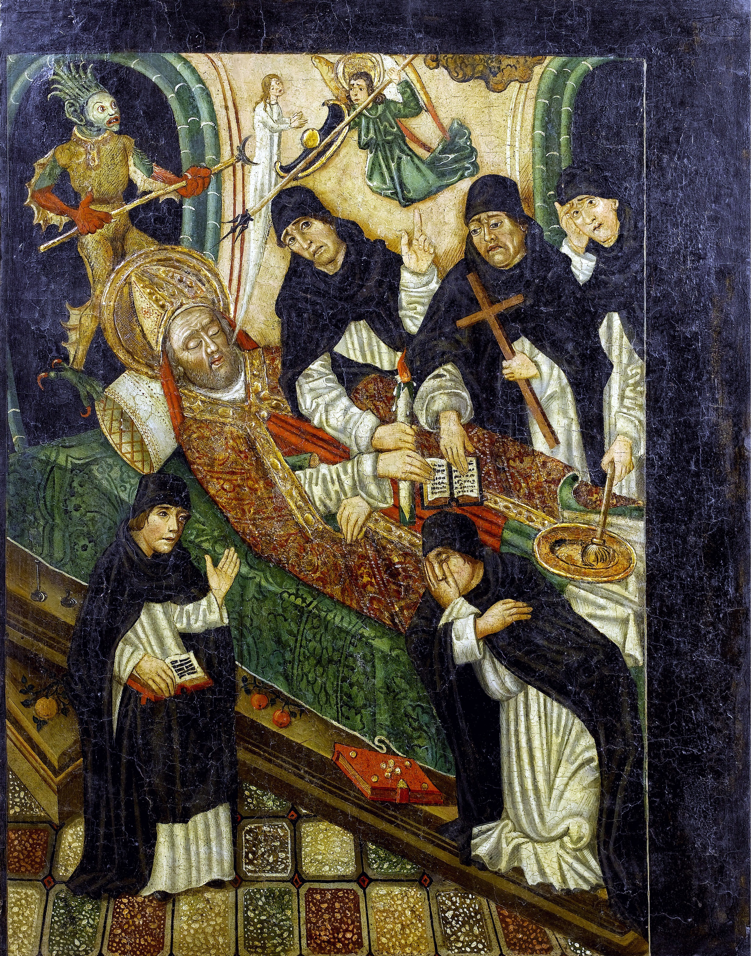 The Death of a Bishop; tempera on gold-ground panel; 88.2 x 70.2 cm Recognised by Juan Ainaud de Lasarte as by the same hand as the retablo depicting the Dormition of the Virgin, now in the Museo de Arte de Cataluña (inv.24133), Barcelona, by an anonymous 15th century Catalan artist.